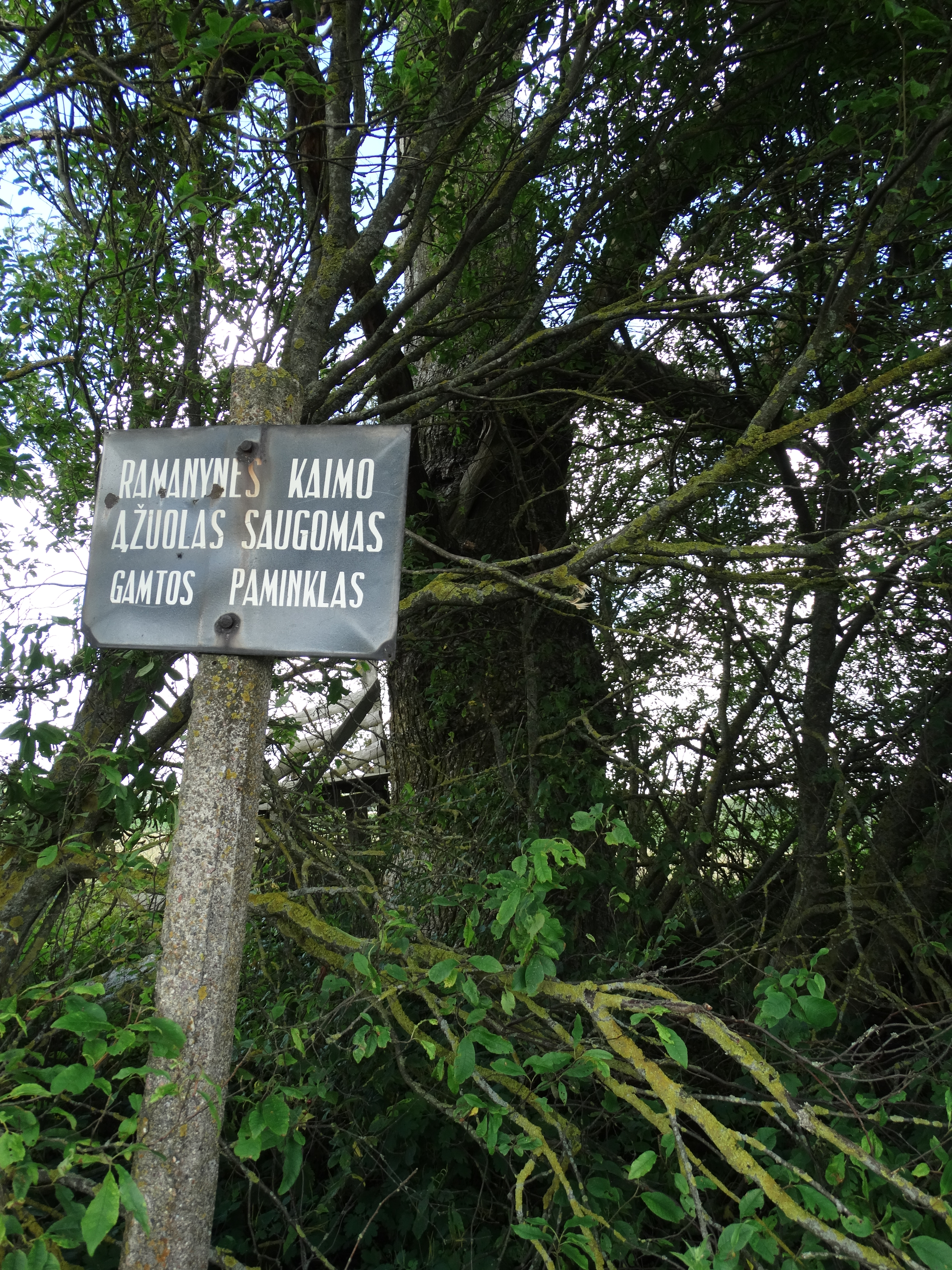 Oak tree, Ramoninė, Pasvalys District, Lithuania